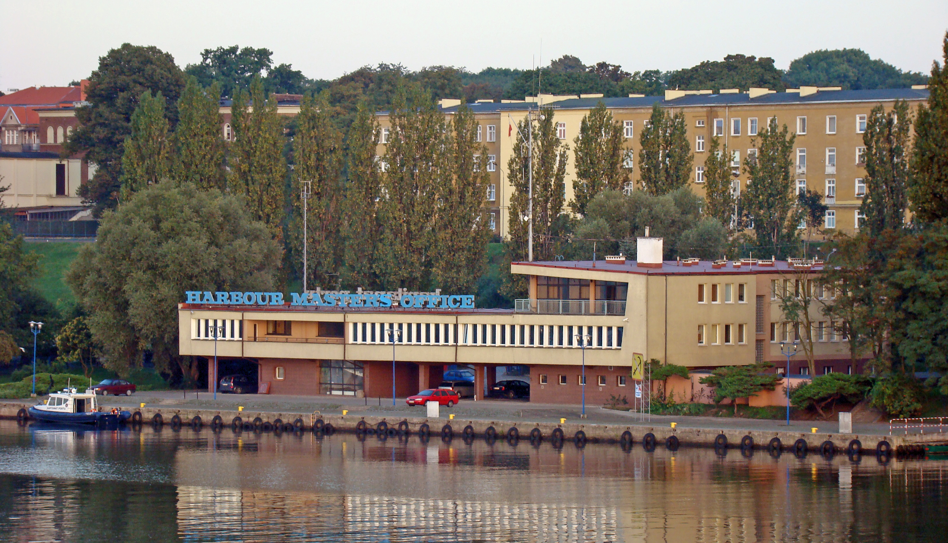 Szczecin Harbour master's office